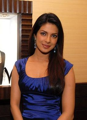 Indian actress Priyanka Chopra from Bihar